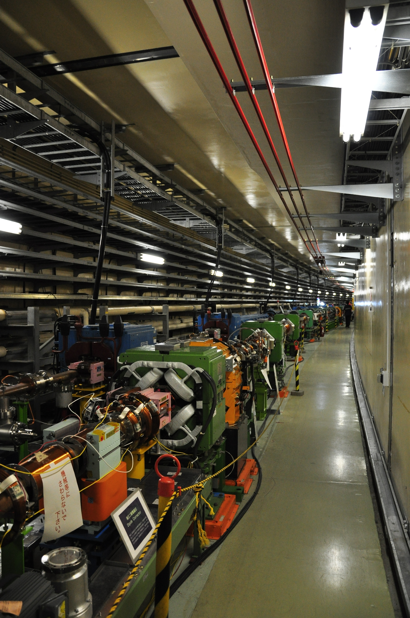 KEKB accelerator at Tsukuba, Japan. The circumference of ring is 3016 m. The ring at left (blue) is for e-, and the ring at right (green) is for e+.